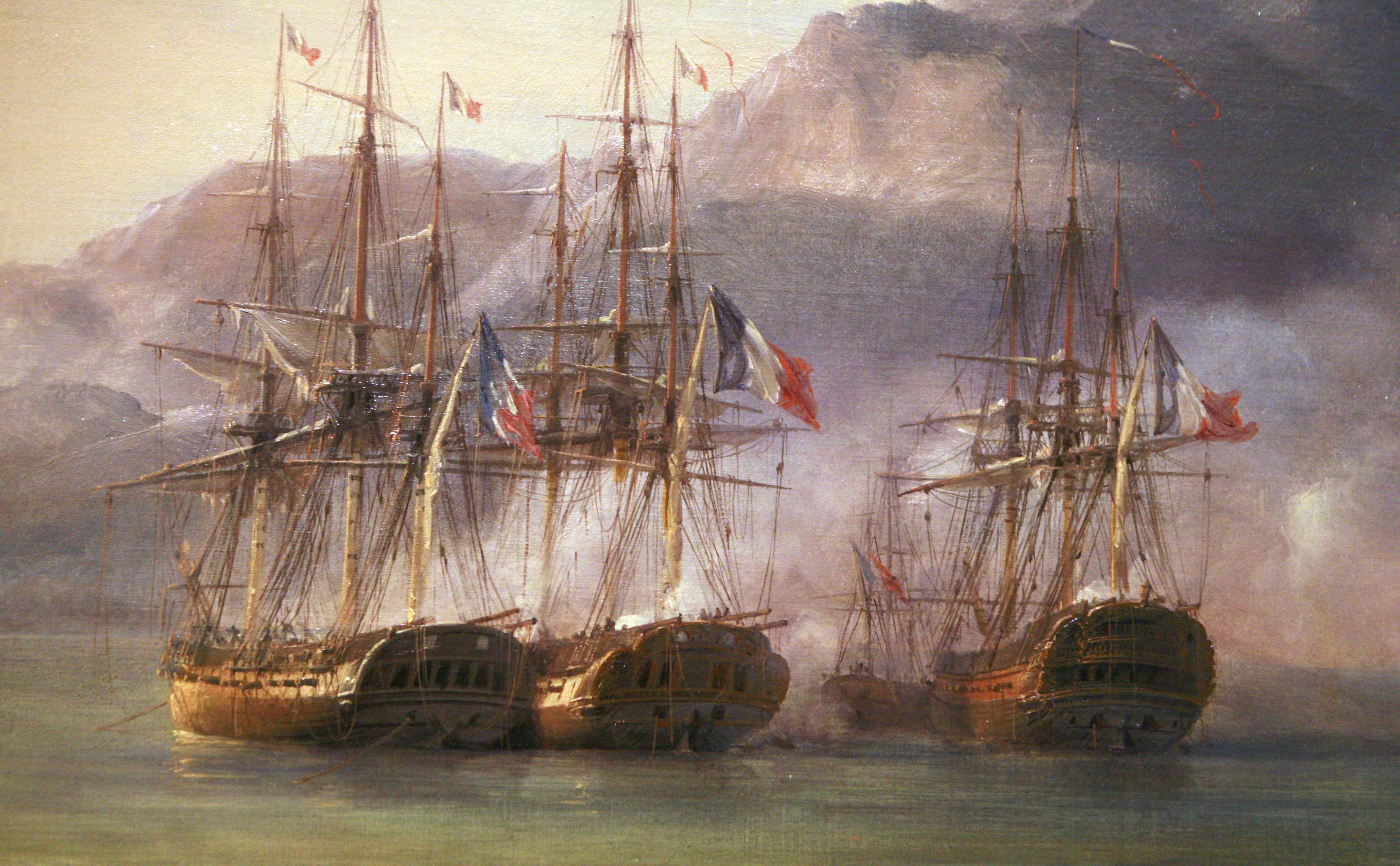 Detail of Battle of Grand Port: From left to right: French frigate Bellone, French frigate Minerve, Victor (background) and CeylonOil on canvas